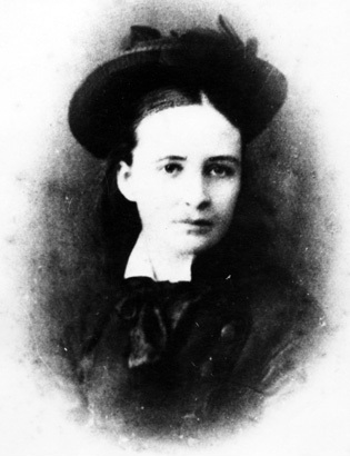 This is a photograph of Grace Bussell (1870–1835), later Grace Drake-Brockman, heroine of the SS Georgette shipwreck